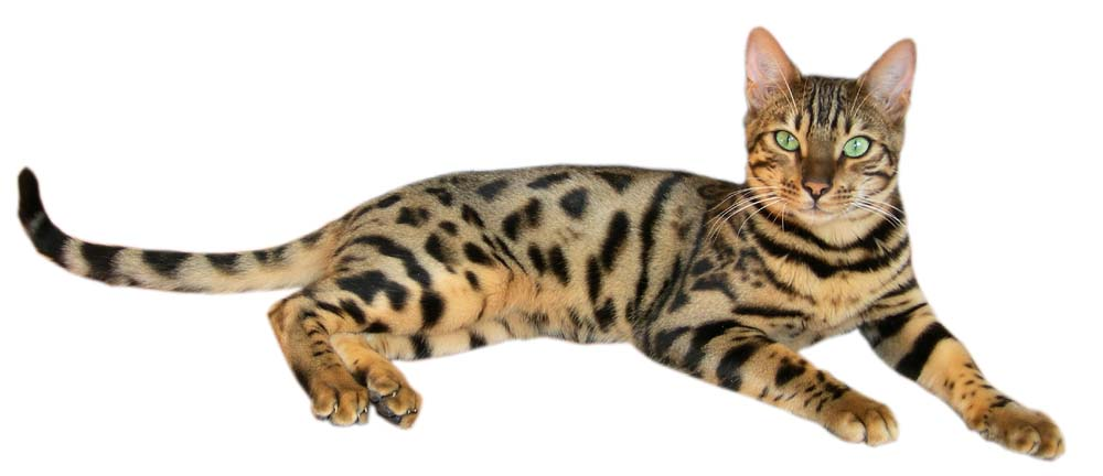 Brown spotted tabby bengal cat (by courtesy of Kitty Bengals cattery)